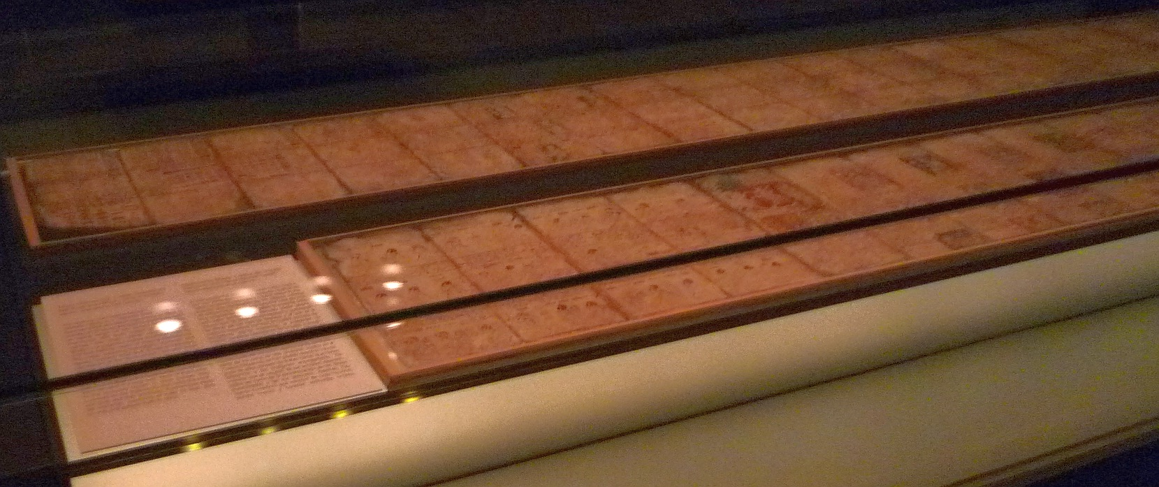 The Dresden Codex in its protective glass cabinet in the library museum of the Saxon State Library in Dresden